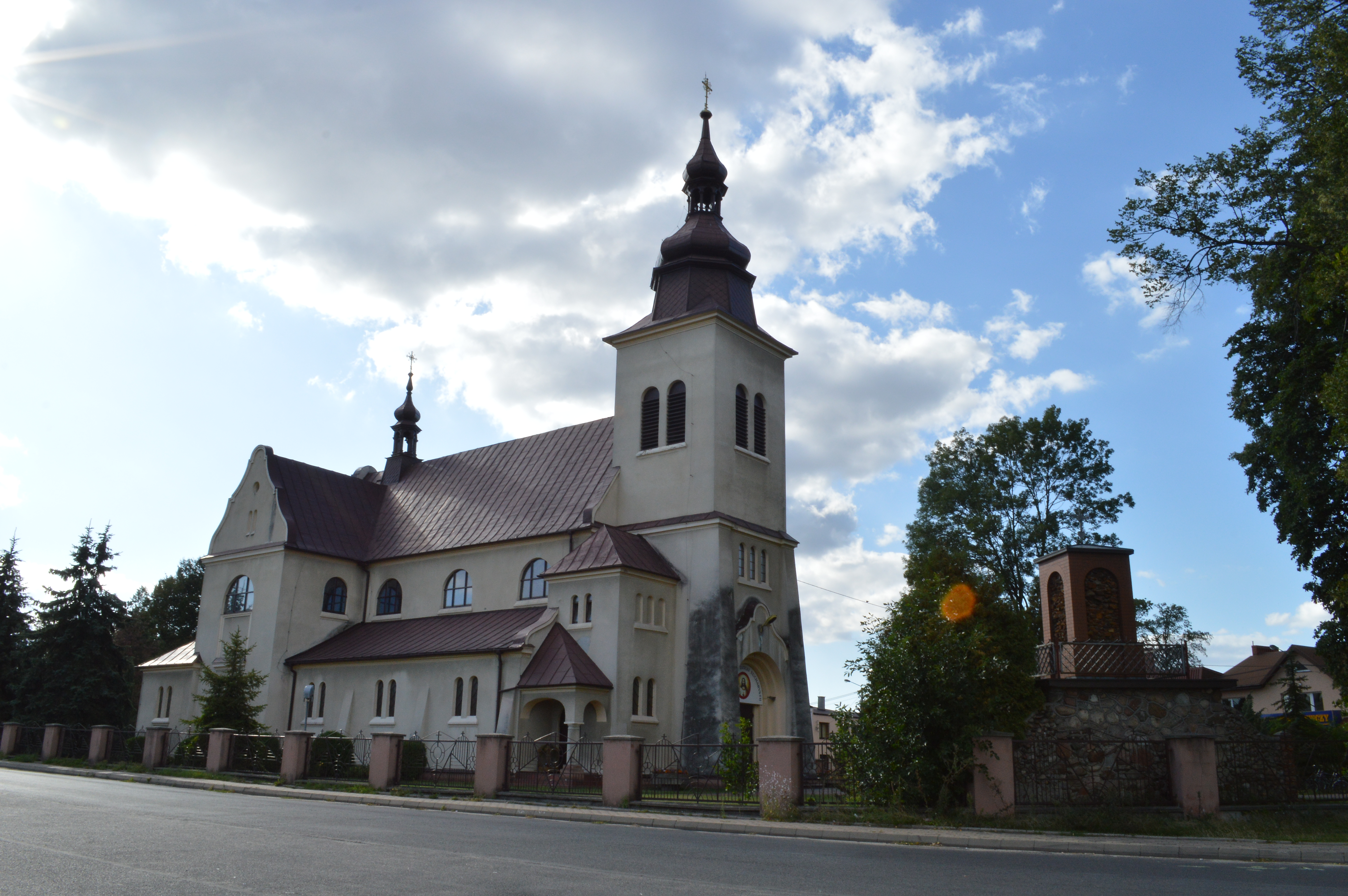 Church of Holy Family in Panki